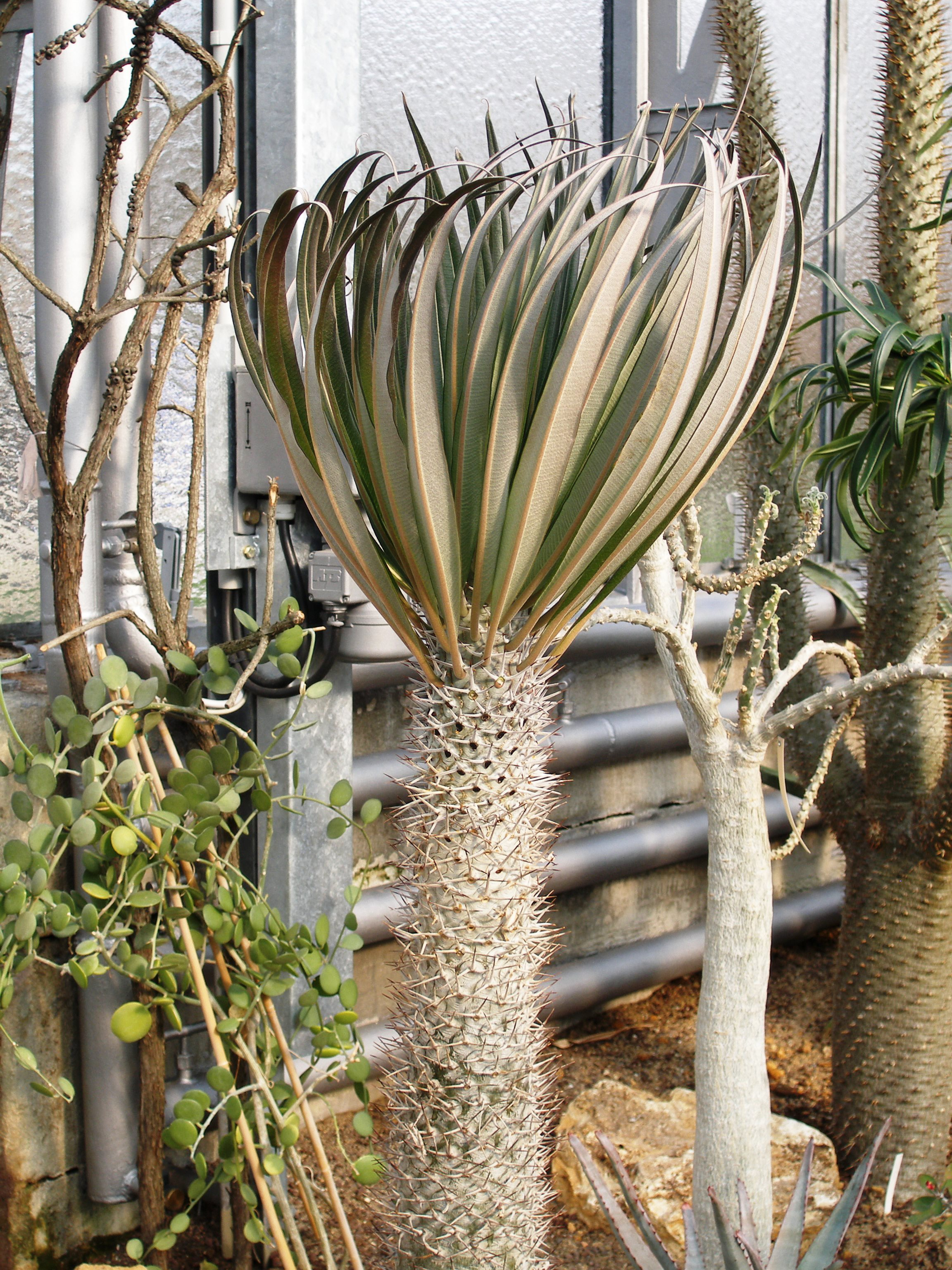 Specimen in cultivation at the Wilhelma Zoologisch-Botanische Garten, Stuttgart, Germany.